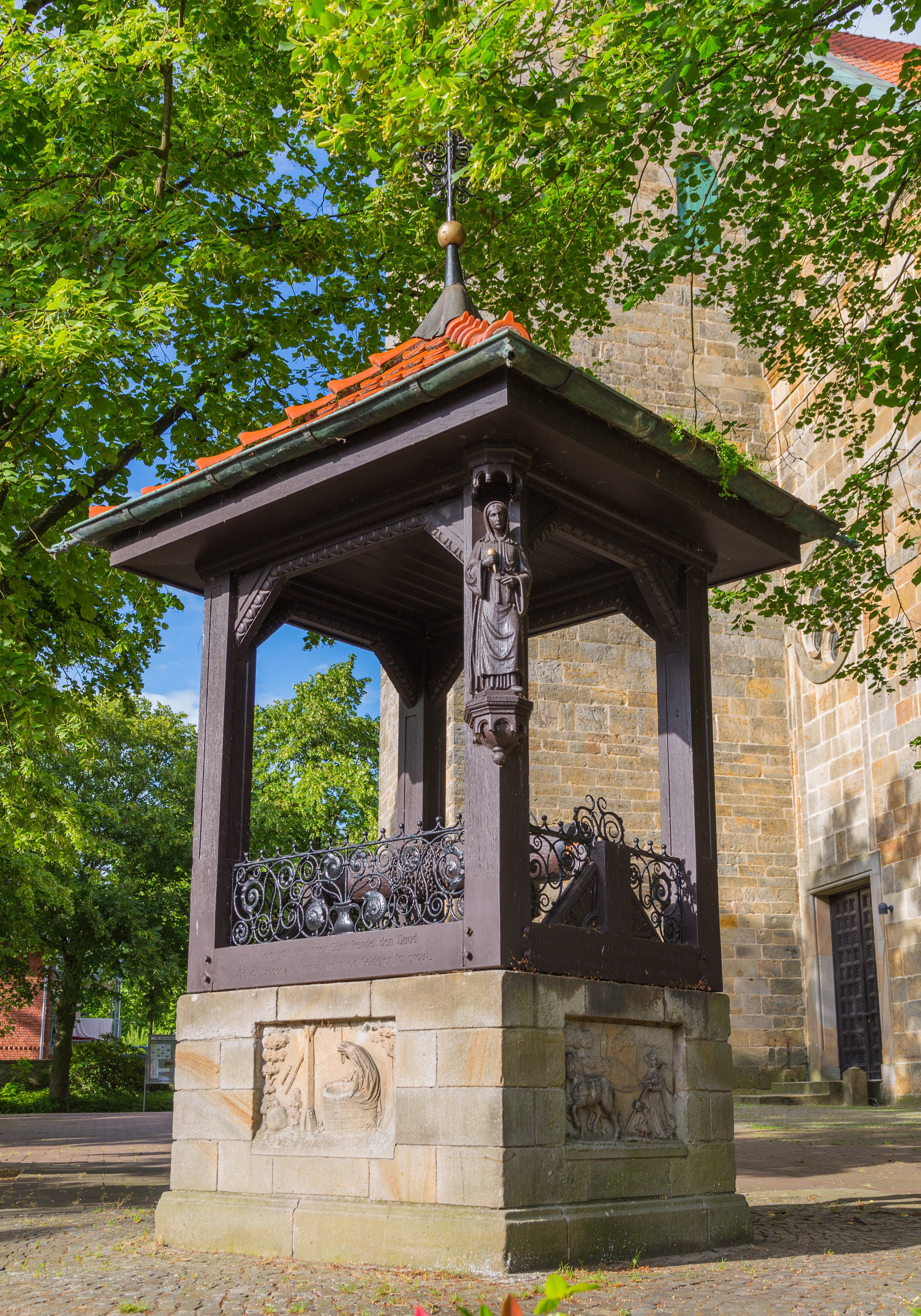 Detail of the Reinhildis Dug Well (Reinhildisbrunnen) at the St. Kalixtus churchyard in Hörstel-Riesenbeck, Kreis Steinfurt, North Rhine-Westphalia, Germany. The dug well, also a memorial, was built in 1912. It tells the story of Saint Reinhild [Saint Reinhildis/Sünte Rendel].